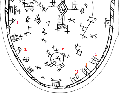 On this lower half of a sami drum from Åsele tre frequent motives are hightlighted: Two Njalla are marked with No 1; The reindeer herd gathered within its fence is marked with No 2, this is a frequent motive on the southern sami drums; The three mother goddesses are marked as No 3-5. They are named Sáráhkká, Juoksáhkká og Uksáhkká, and appear mostly together.